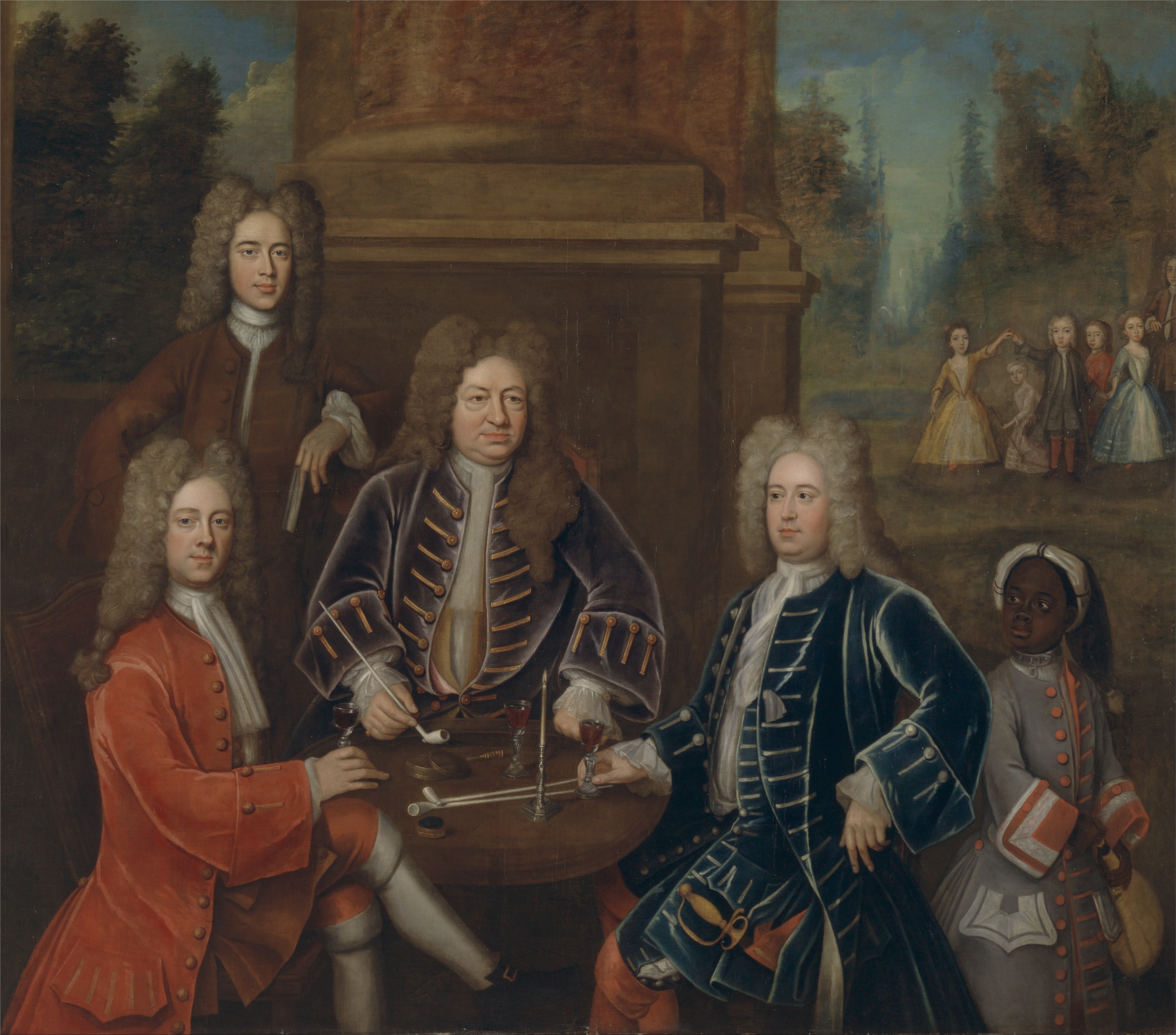 Conversation piece showing the 2nd Duke of Devonshire (at left, in red), Lord James Cavendish (standing, in brown), Elihu Yale (center, in purple), and Mr. Tunstal, lounging in a loggia with long pipes and wine, with a Page, and children playing in the background.